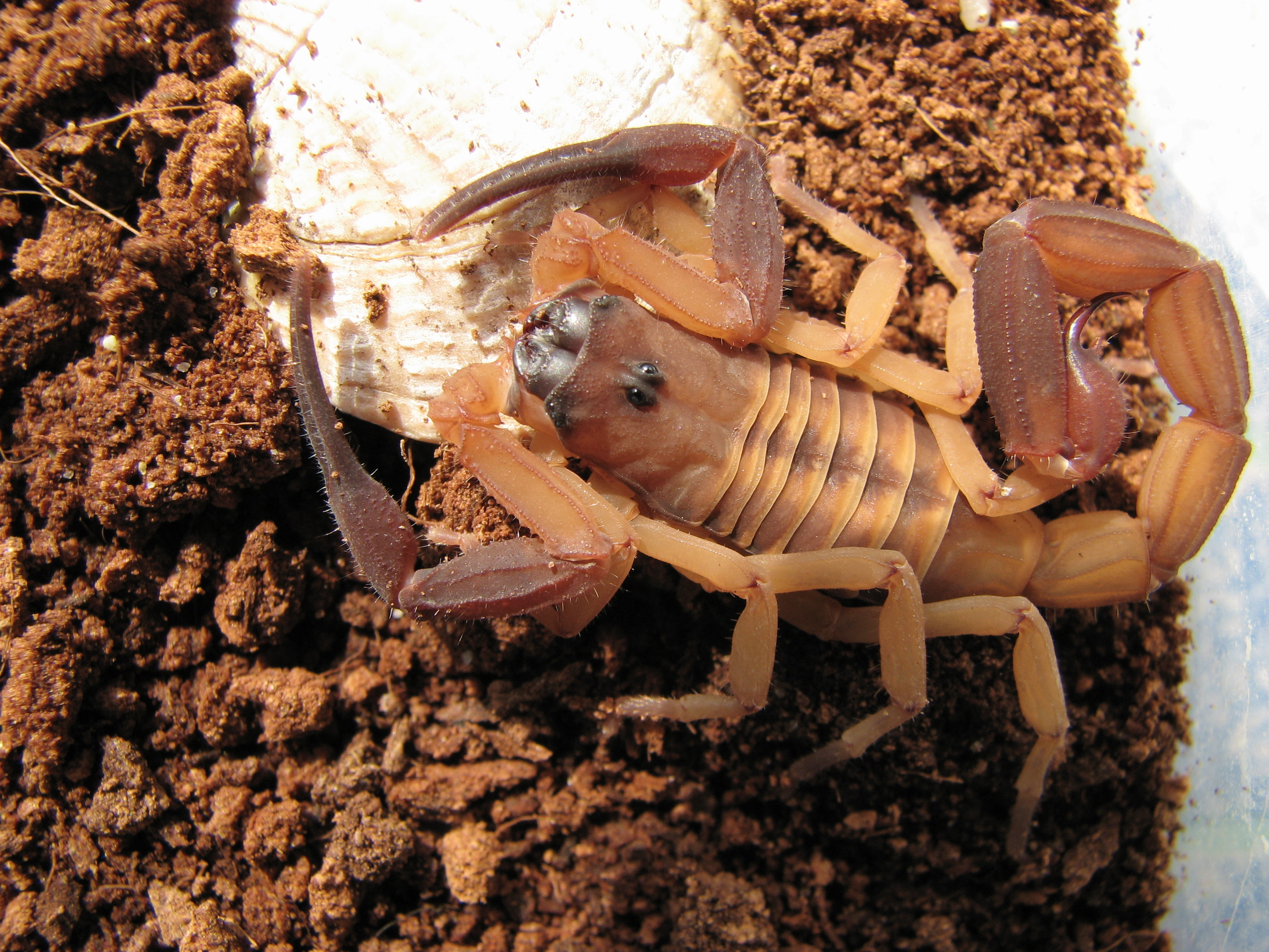 Babycurus gigas, young specimen